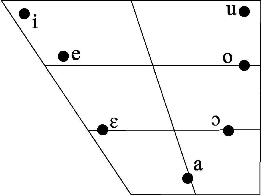 IPA vowel Chart for Italian